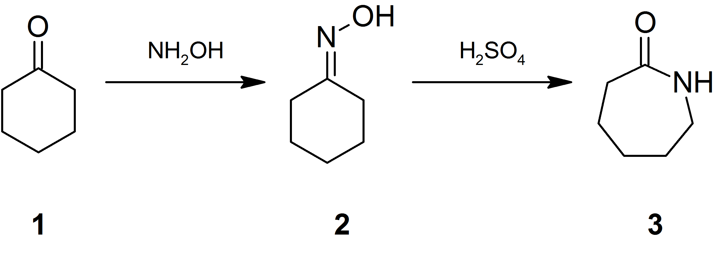 reaction sceme